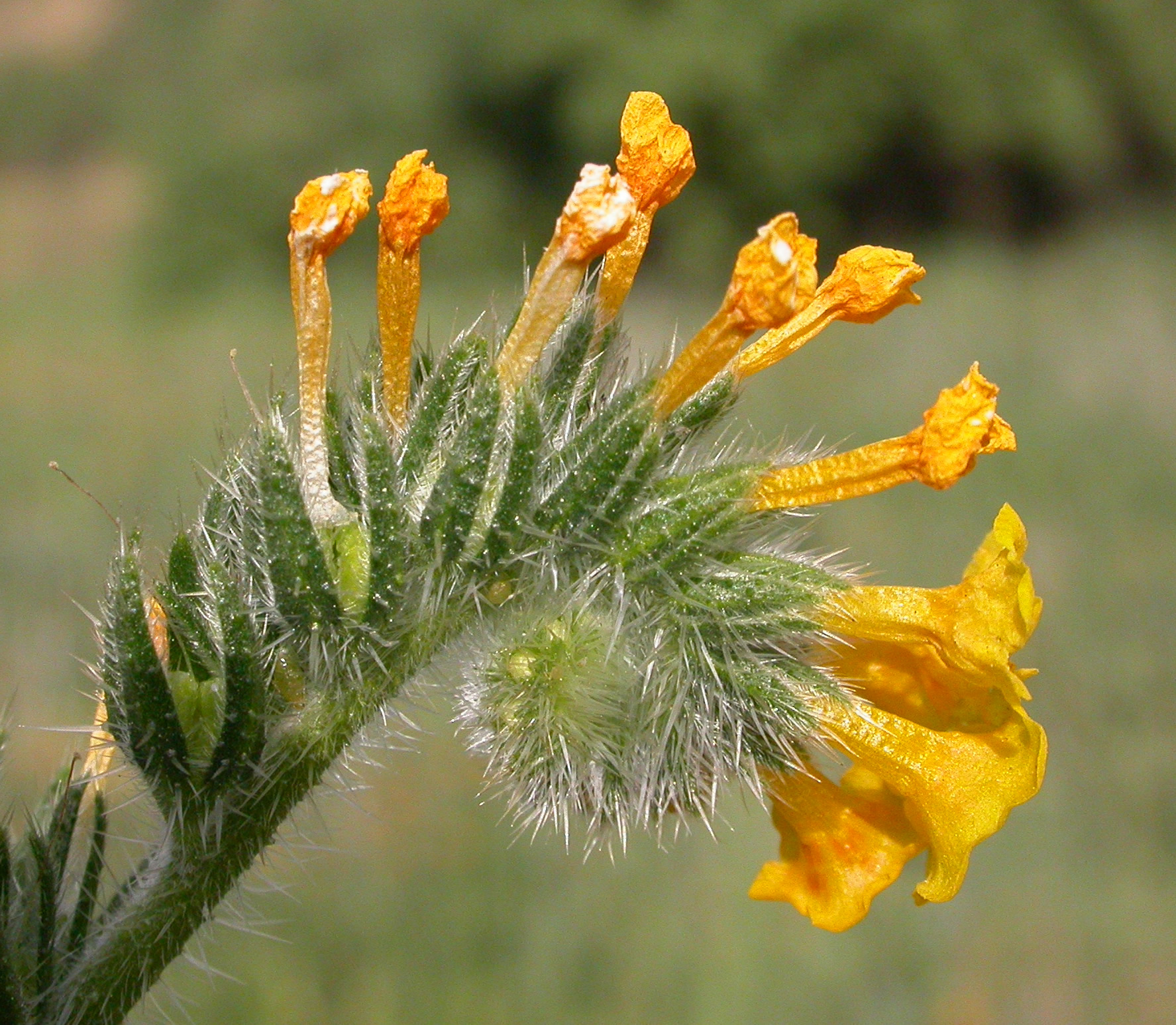 Amsinckia intermedia — the inflorescence is a cincinnus (scorpioid cyme). Plant of California chaparral and woodlands habitats. In the Voorhis Ecological Reserve at California State Polytechnic University, Pomona, California.